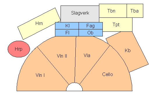 Schematic overview of an orchestra. The labels are in Swedish for use at sv-wikipedia.